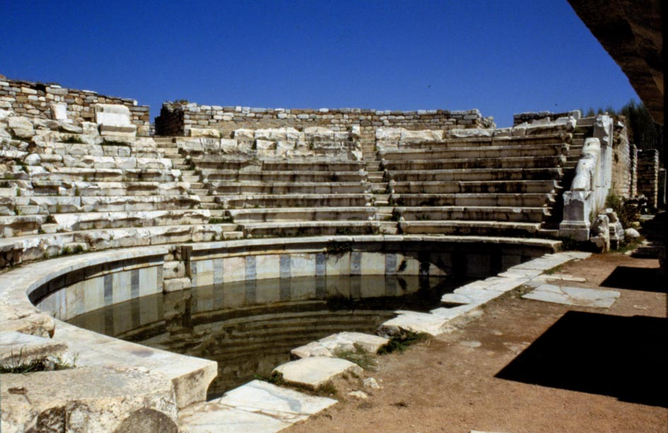 Aphrodisias, Odeion